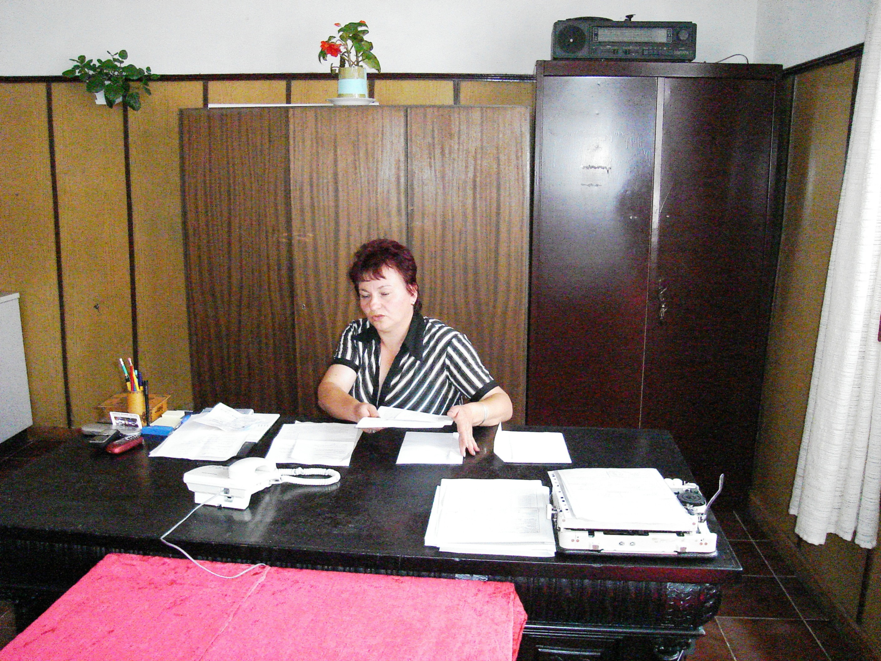 Tsanka Angelova, mayor of village Gigintsi, Bulgaria